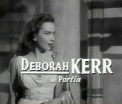 Cropped screenshot of Deborah Kerr from the trailer for the film Julius Caesar